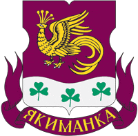 Yakimanka (rayon of Moscow), coat of arms